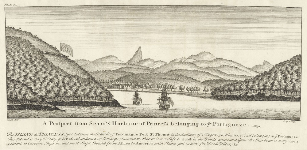 Island of Principe (Sao Tome and Principe), 1727. The inscription says: "The ISLAND of PRINCESS lies between the Islands of FERNANDO PO & St. THOMÉ in the Latitude of 1 Degree 30 Minutes N. all belonging to the Portuguese. This Island is very Woody and breeds abundance of Monkeys, insomuch that it is not safe to walk in the Woods without a gun. The harbour is very convenient to Careen Ships in, and most Ships Bound from Africa to America with Slaves put in here for Food, Water etc."